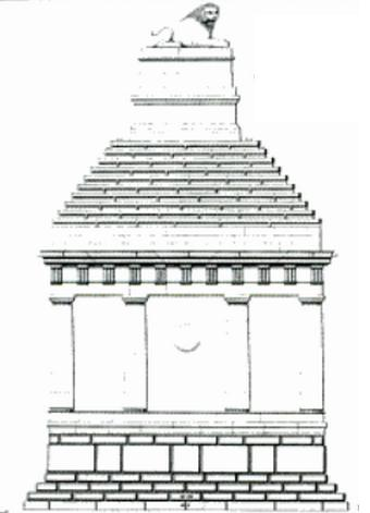 The Lion of Knidos was found in 1858 by Pullan as he walked the cliffsnear where he was helping Charles Thomas Newton to excavating the ancient Greek city of Knidos. This is his sketch of what it would have looked like before the lion was removed/ fell down